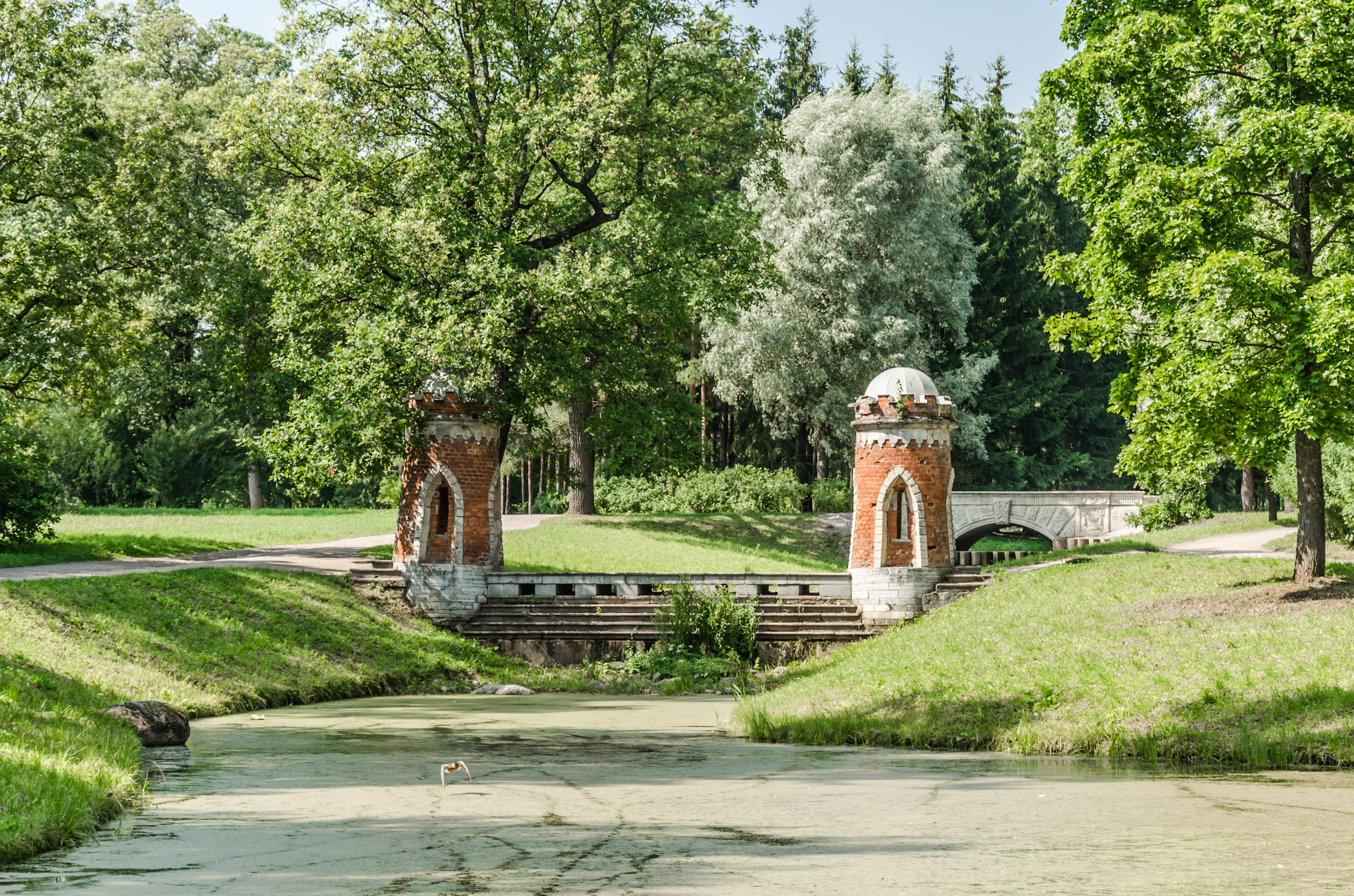 Red Cascade in Catherine park of Tsarskoe Selo, Saint Petersburg